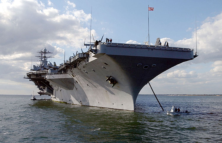 USS Harry S. Truman anchors outside Portsmouth, England, while her crew enjoy a port visit. Truman and Carrier Air Wing Three (CVW-3) are returning from deployment in support of Operation Iraqi Freedom. Operation Iraqi Freedom is the multi-national coalition effort to liberate the Iraqi people, eliminate Iraq's weapons of mass destruction and end the regime of Saddam Hussein. U.S. Navy photo by Photographer's Mate 3rd Class Danny Ewing Jr.